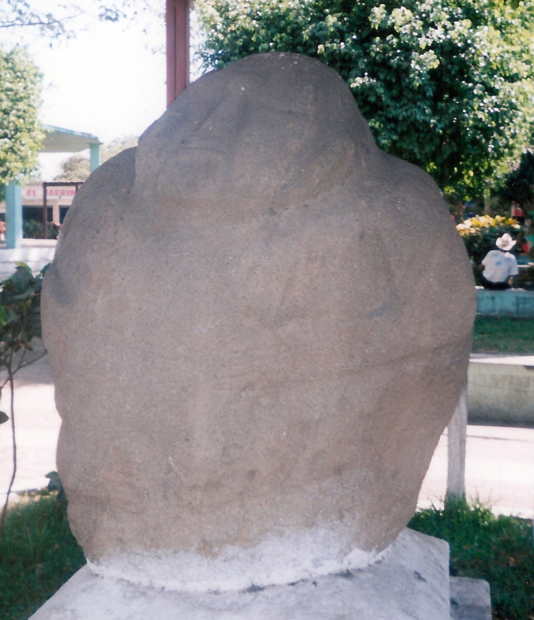 Potbelly sculpture from Monte Alto, in the central plaza of La Democracia, Escuintla, Guatemala.